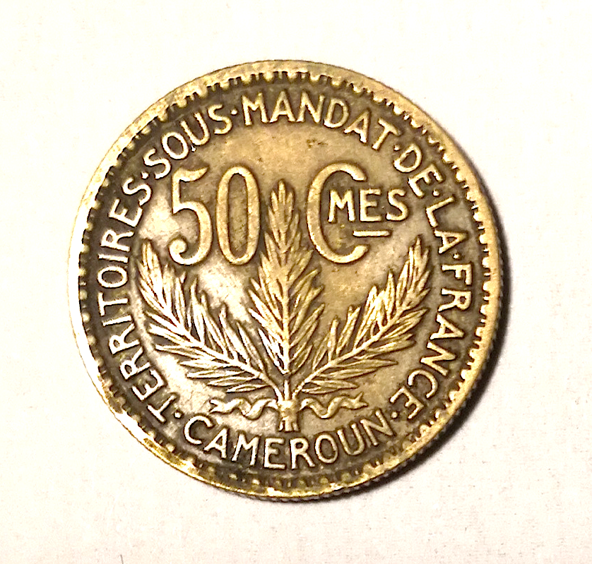 Coin of 50 centimes stucked in Paris for the French Cameroun Territory. Composition: aluminium-bronze.